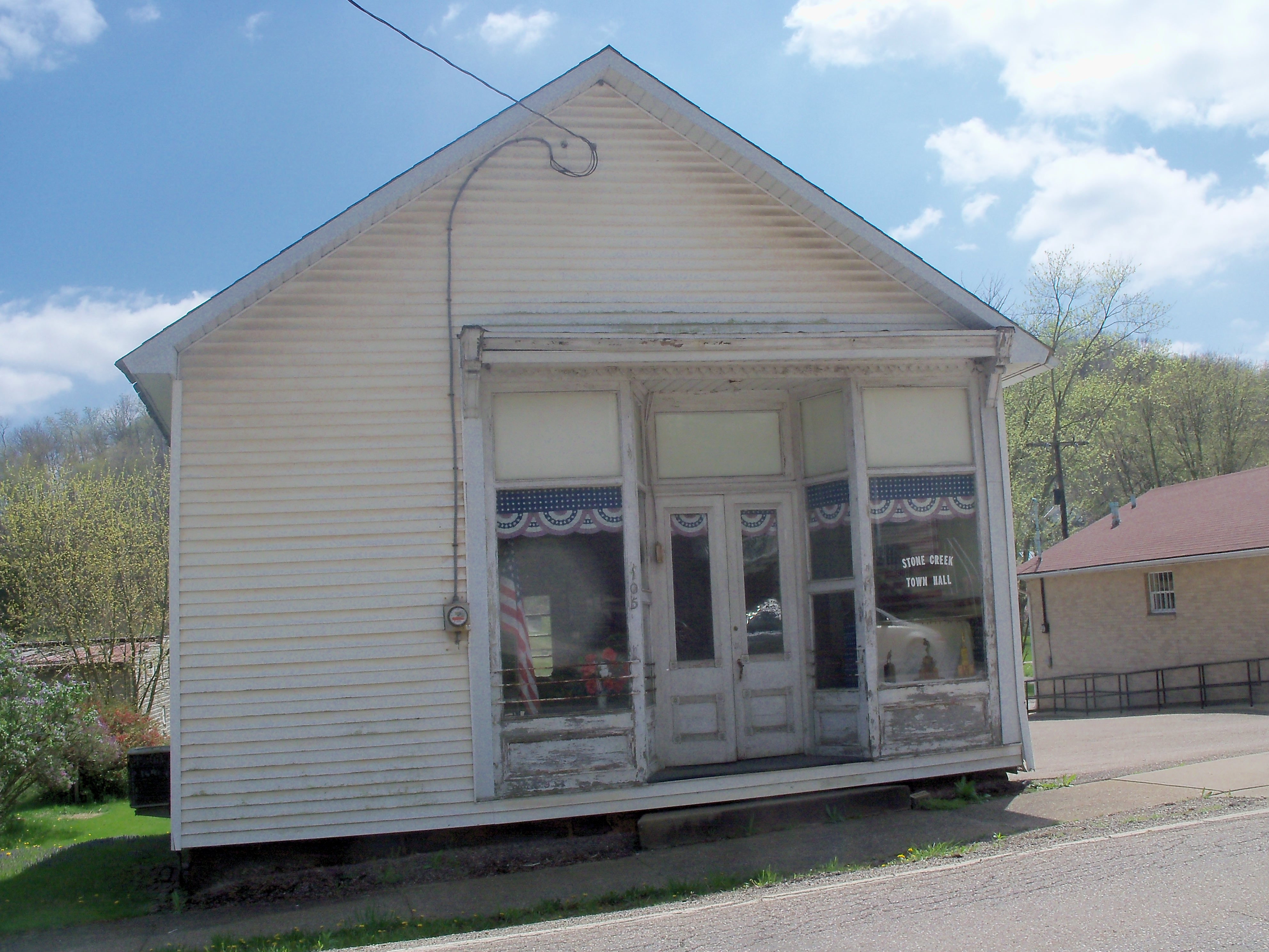 Town Hall in Stone Creek, Ohio